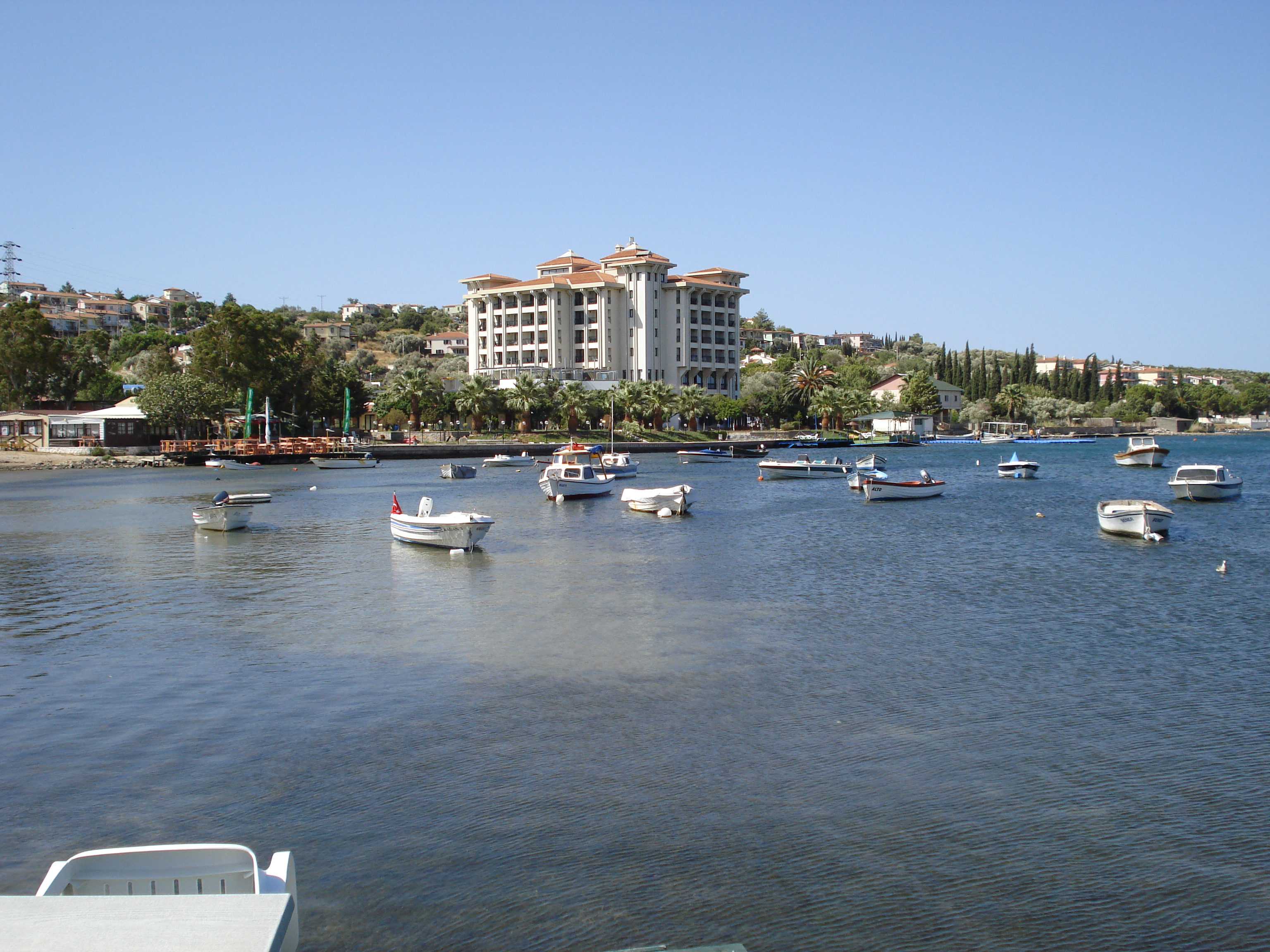 A view of Ildırı beach and Hotel Erythrai. (Çeşme, Izmir)